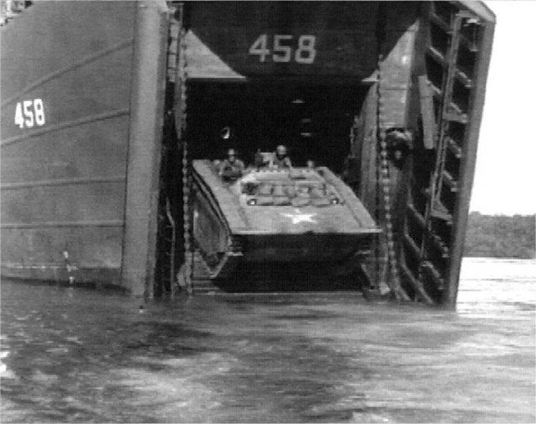 USS LST-458 at Morotai Island, Dutch East Indies, 15 September 1944, off loading equipment. US National Archives image